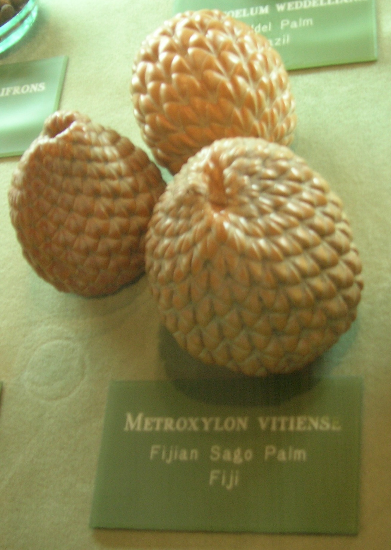 Metroxylon vitiense Arecaceae (alt. Palmae) family Fijian Sago Palm Fiji i040707 321